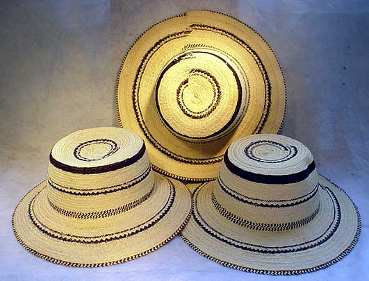 Panamanian Pintado Hats